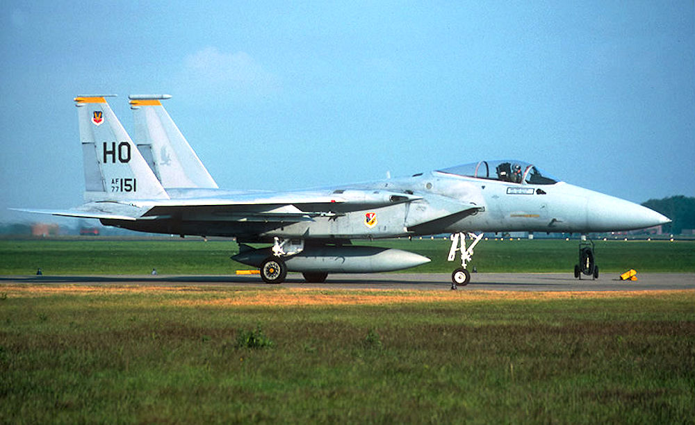 8th Tactical Fighter Squadron McDonnell Douglas F-15A-20-MC Eagle 77-0151 Holloman AFB, New Mexico. Aircraft was retired to AMARC as FH0094 Sep 20, 1994. Still on AMARC inventory Jan 15, 2008.